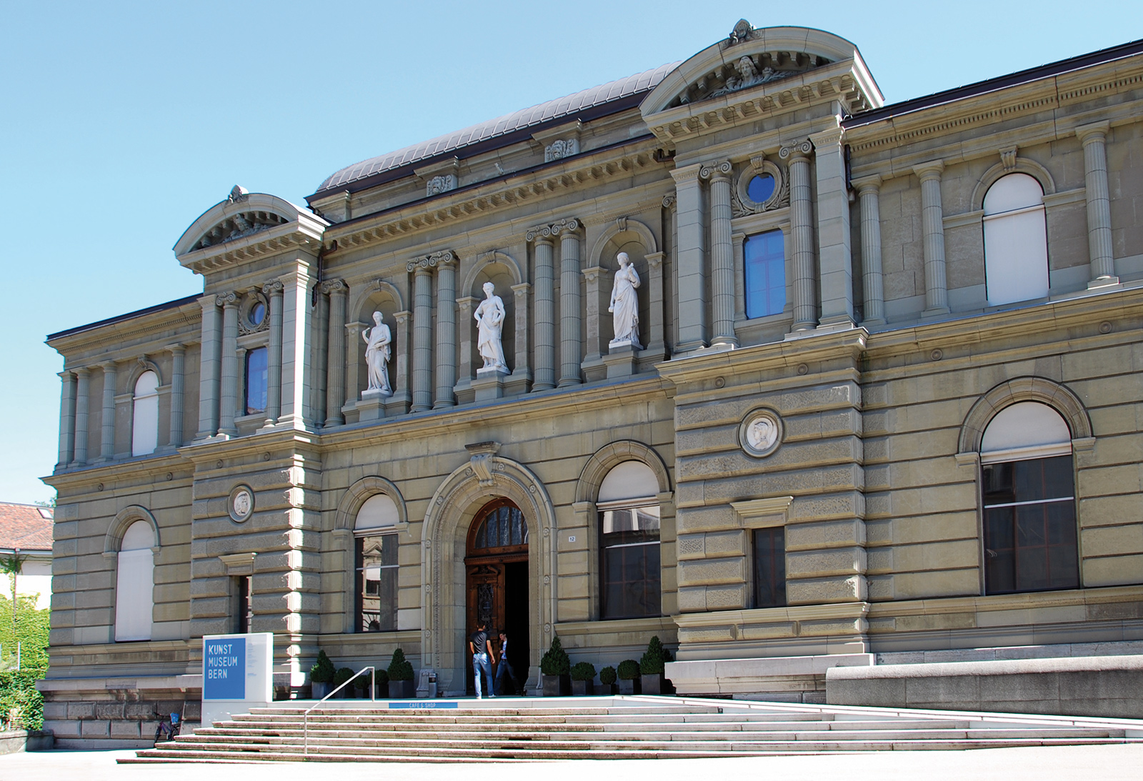 Kunstmuseum Bern, exterior view